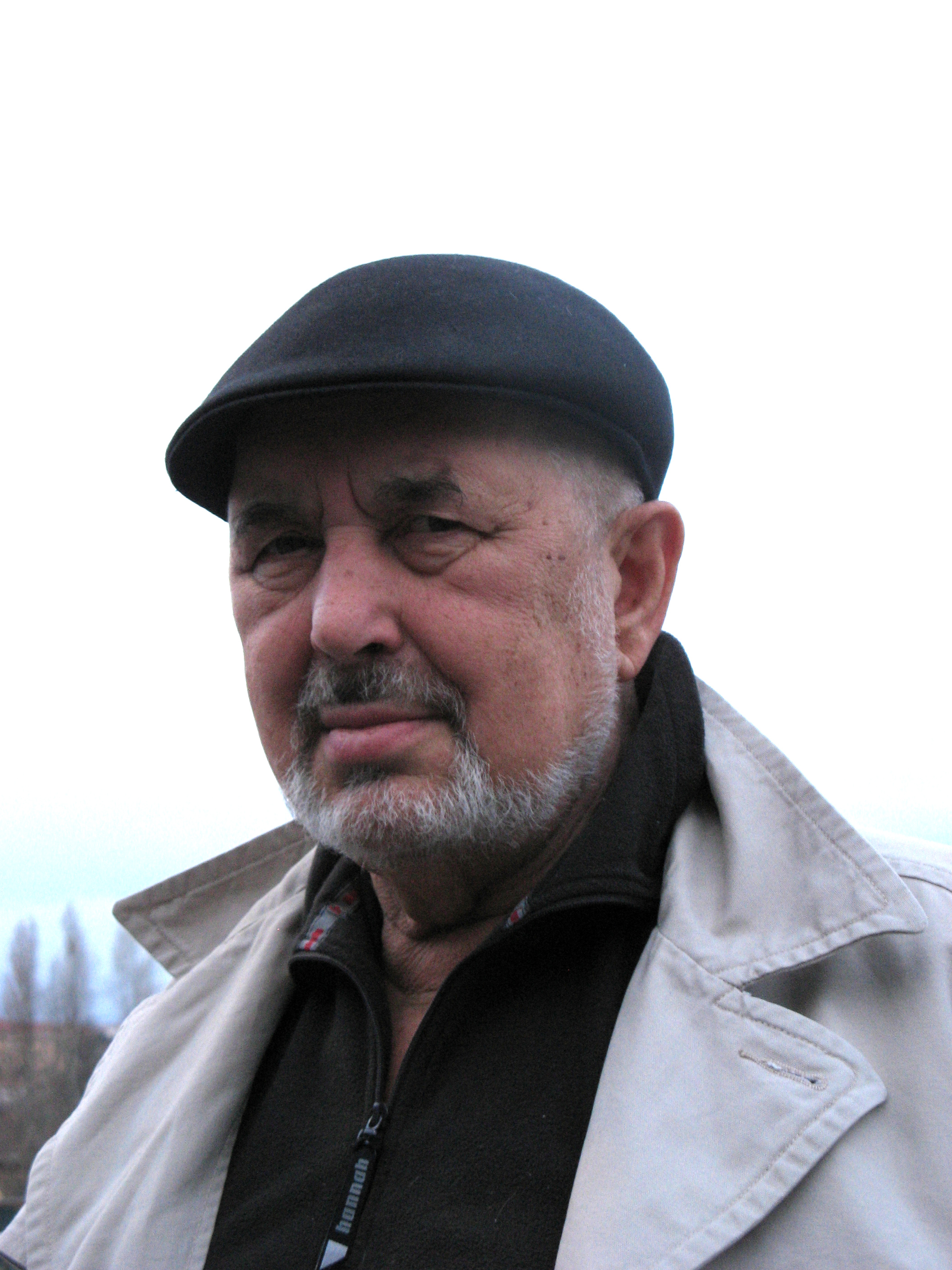 Portrait of Jiri Novotny.